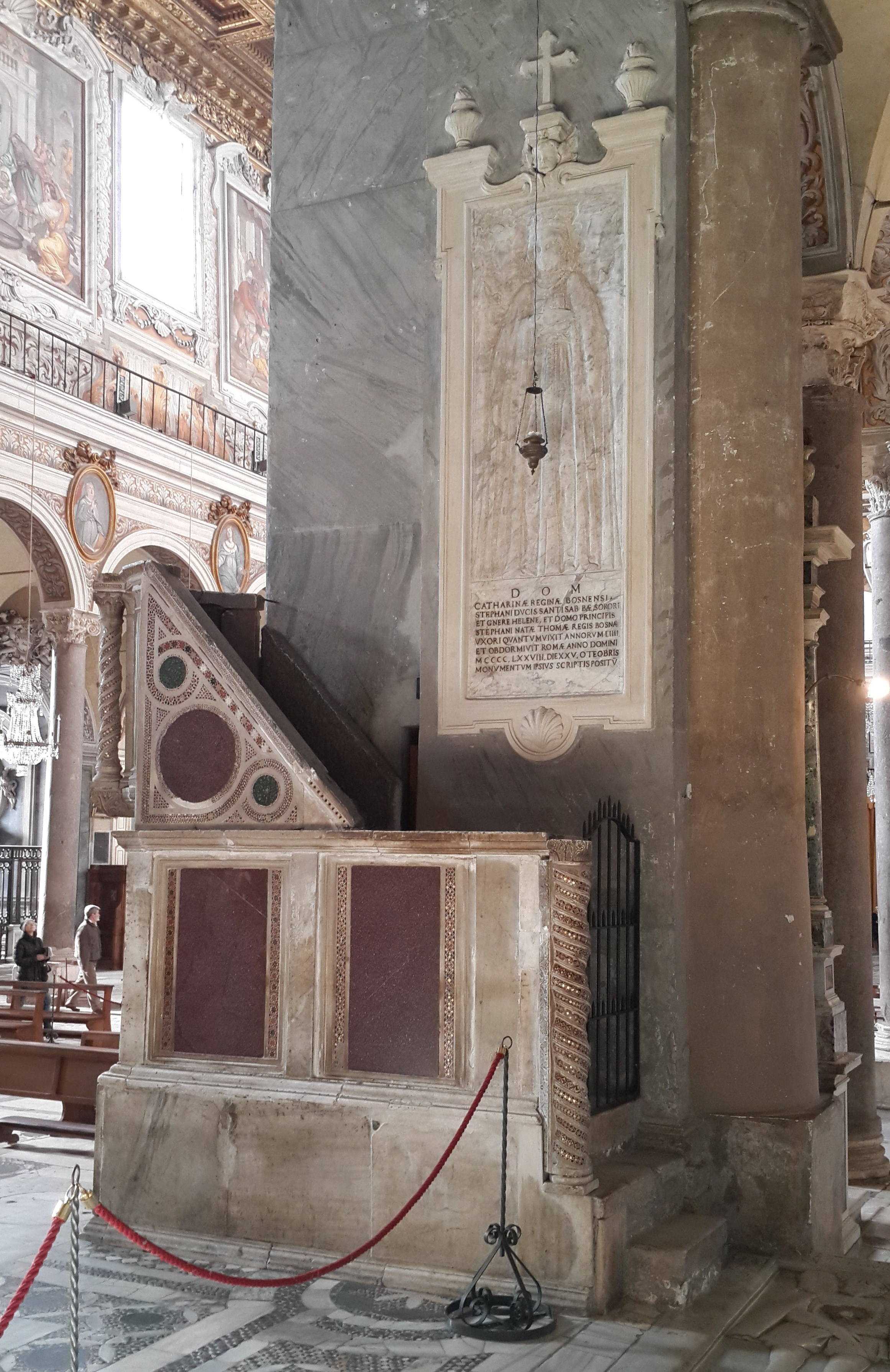 A crop of the image uploaded by Alessandro57, depicting the tomb of the Bosnian queen Katarina Kosača in the Roman church Santa Maria in Ara Coeli.